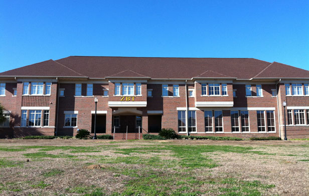 Fraternity house for the Zeta Beta Tau Fraternity at Florida State University (front side)